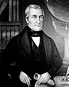 public domain file from